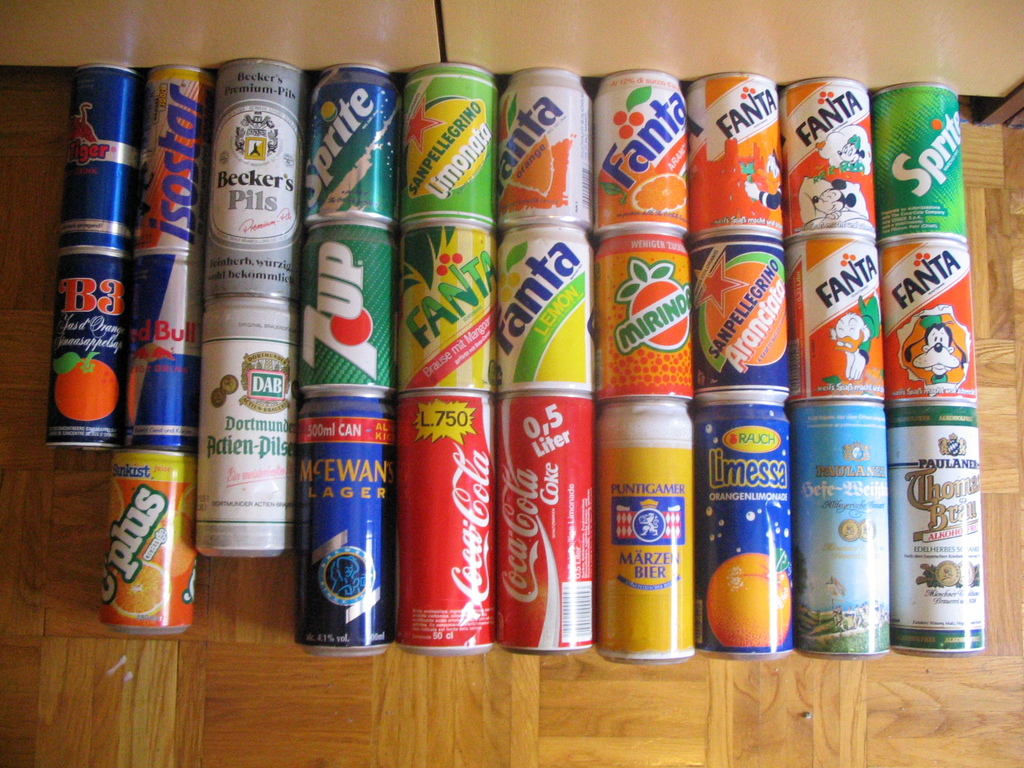 Various tin cans